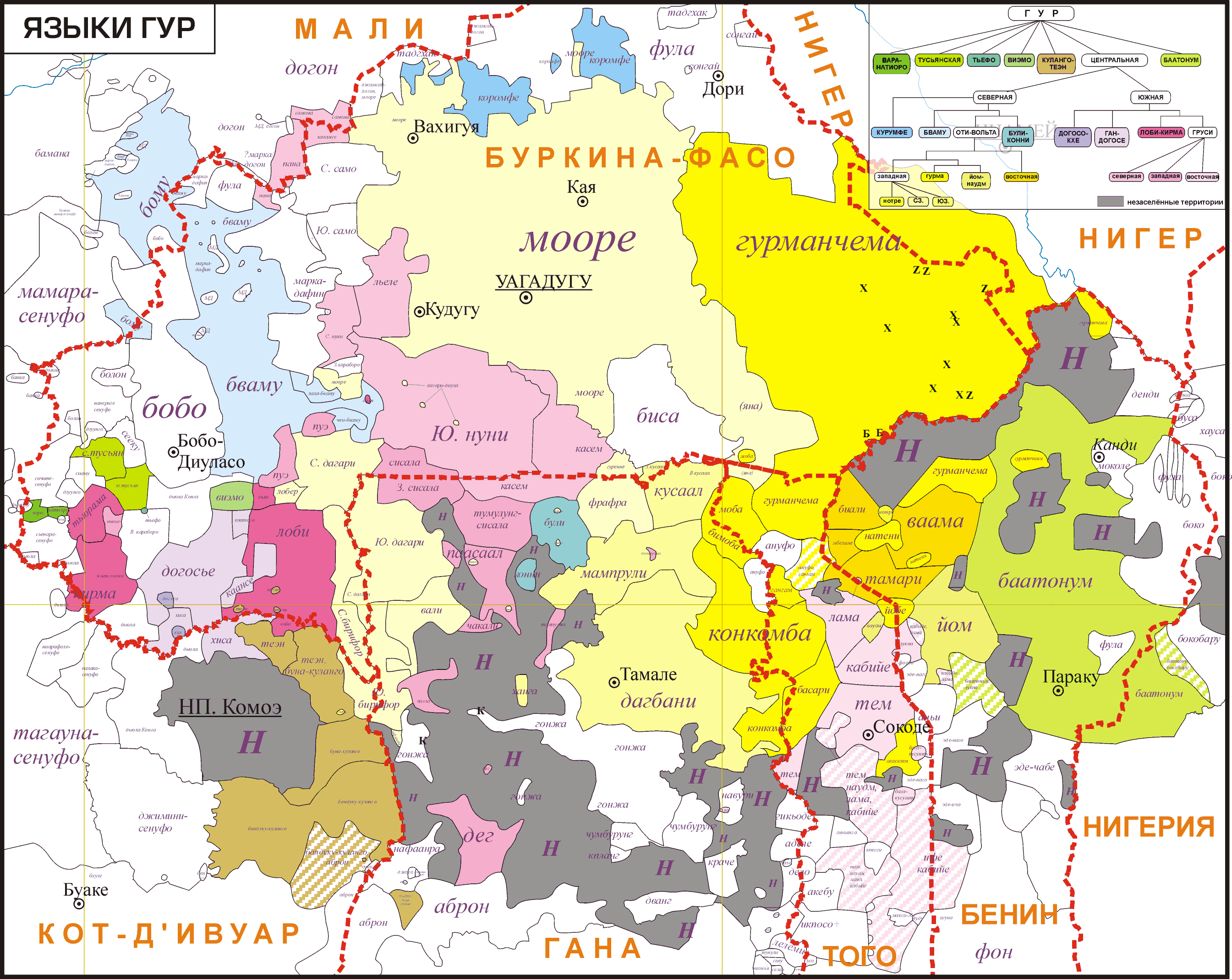 Map of Gur language area Карта языков гур.